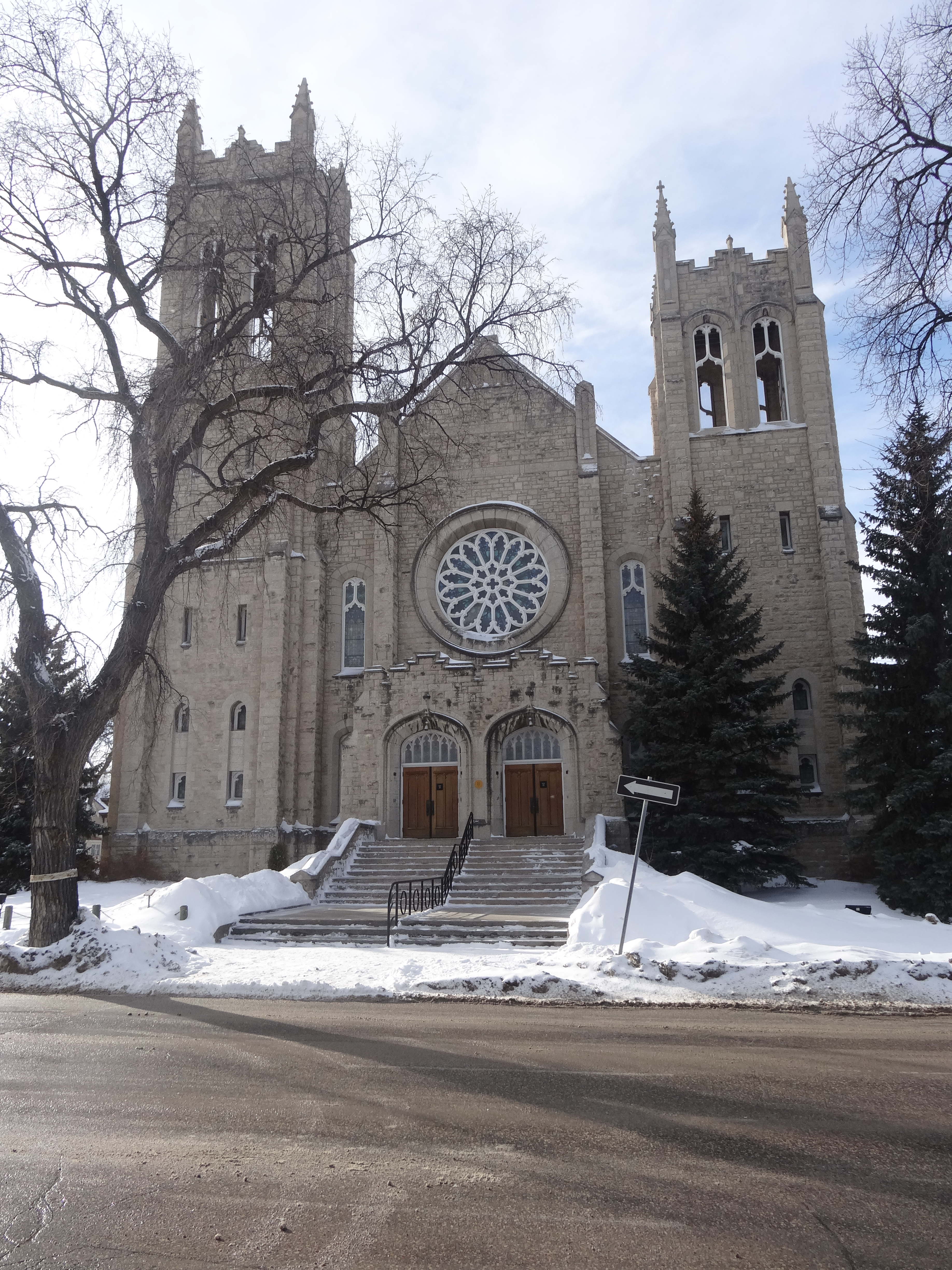 The Westminster United Church in Wolseley, Winnipeg. First opened in 1912.